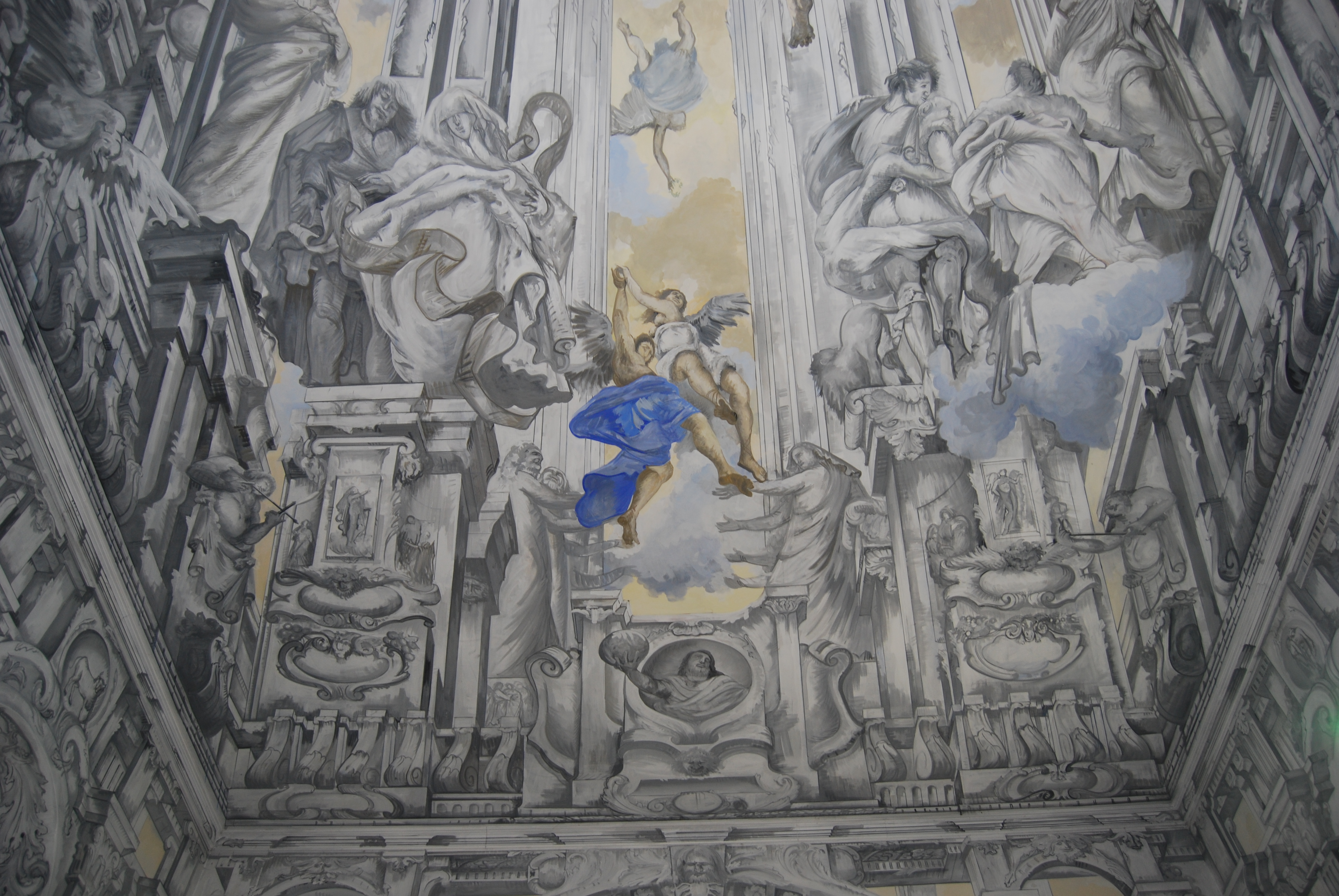 Spa Chapel of Schinznach-Bad, canton of Aargau, SwitzerlandEsperanto: Kurackapelo de Schinznach-Bad, Kantono Argovio, Svislando